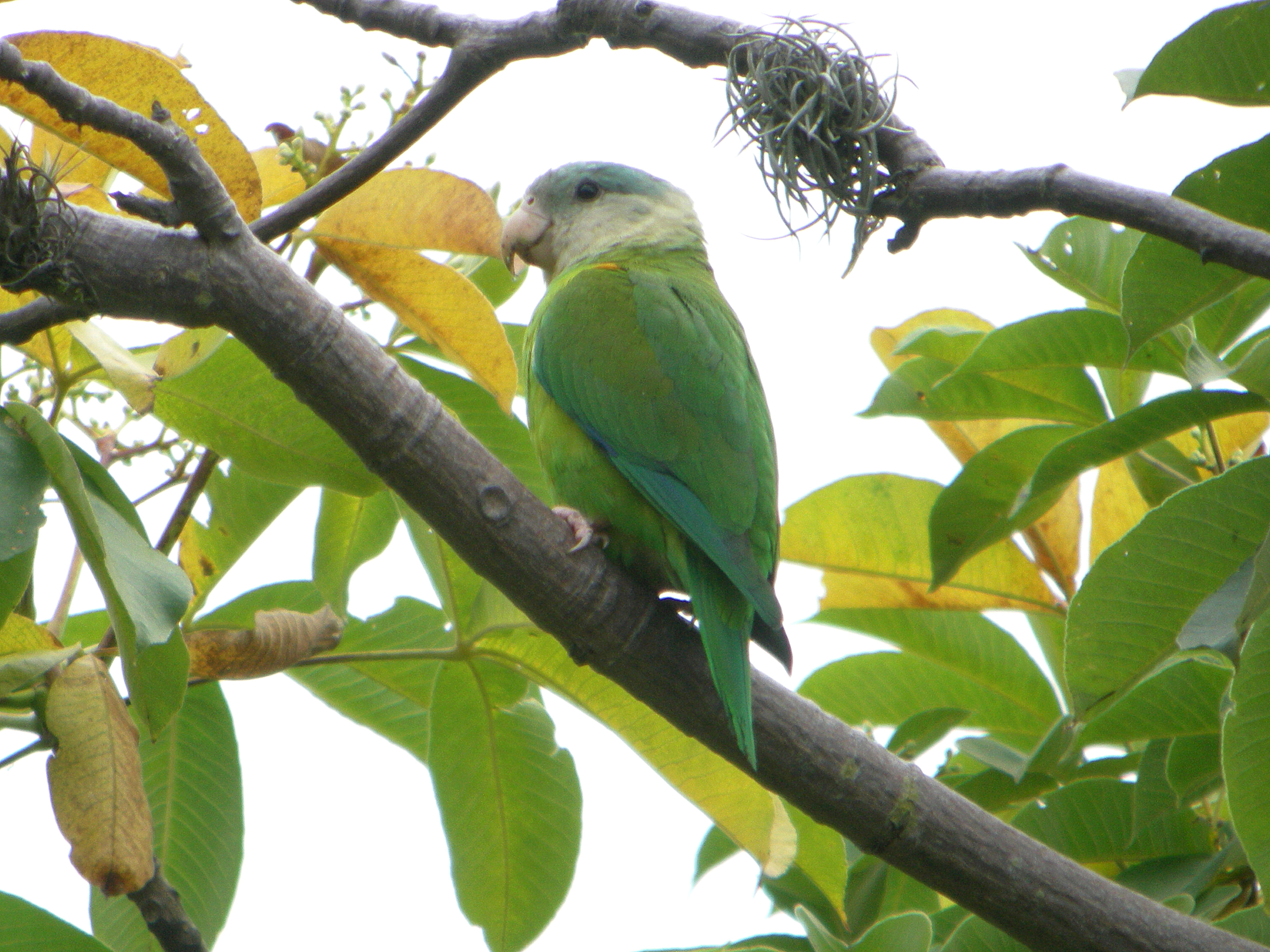 Grey-cheeked Parakeet (also known as the Fire-winged Parakeet) at El Empalme (also known officially as Velasco Ibarra), a town located in Guayas, Ecuador